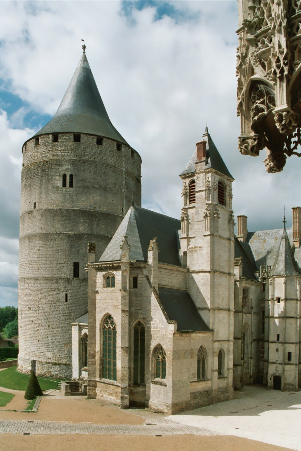 Castle of Chateaudun (France) : Holy Chapel and dungeon